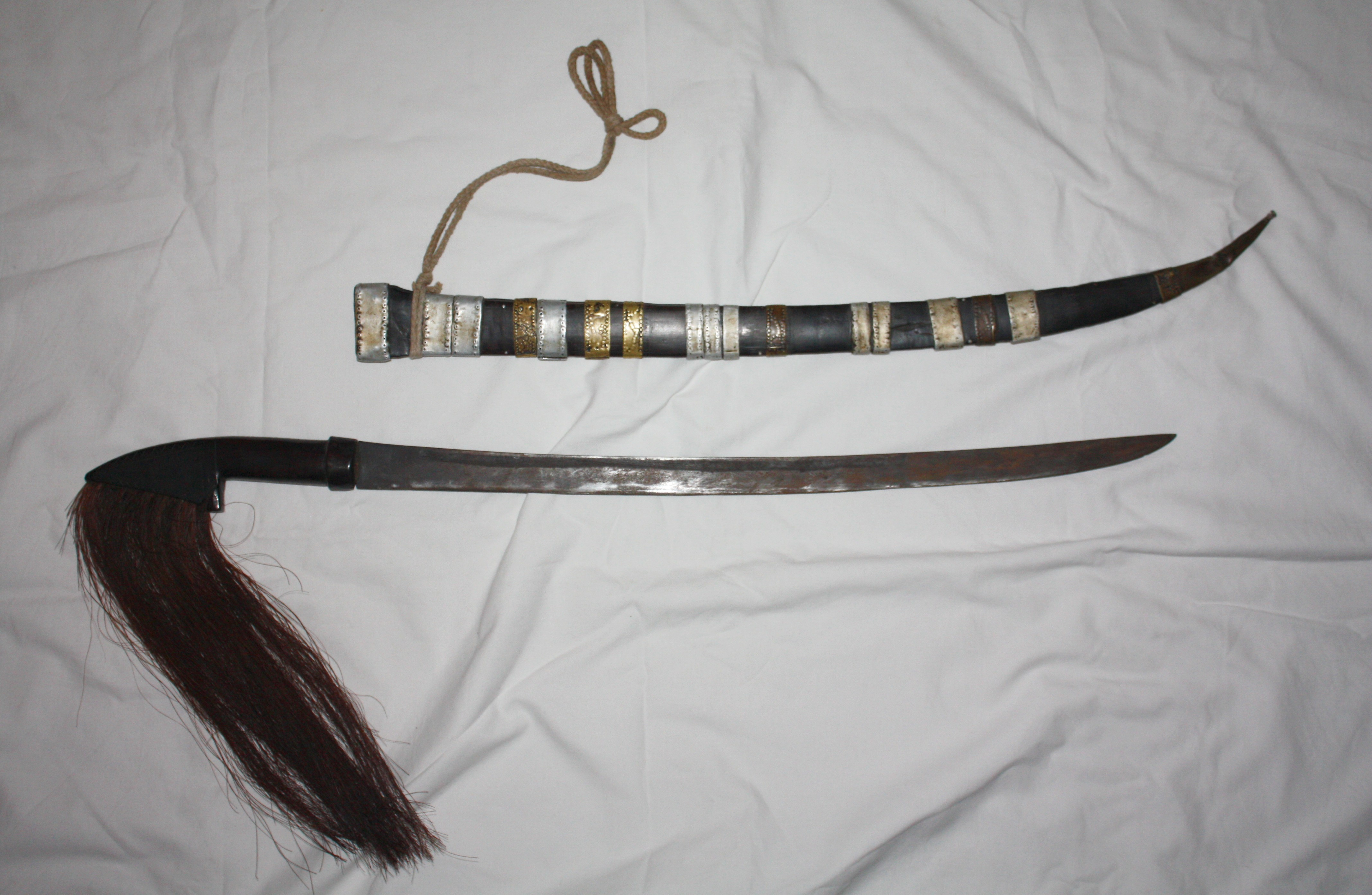 A Surik from Maubisse, East Timor.